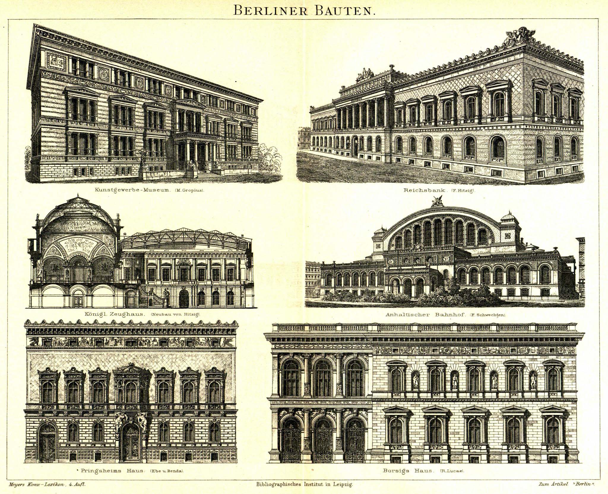 Meyers Konversationslexikon — Vol. 2 — plate to page 754 — Buildings in Berlin